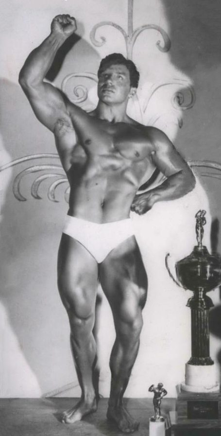 1956 Press Photo Bill Pearl and Paulette Nelson, Mr and Miss USA